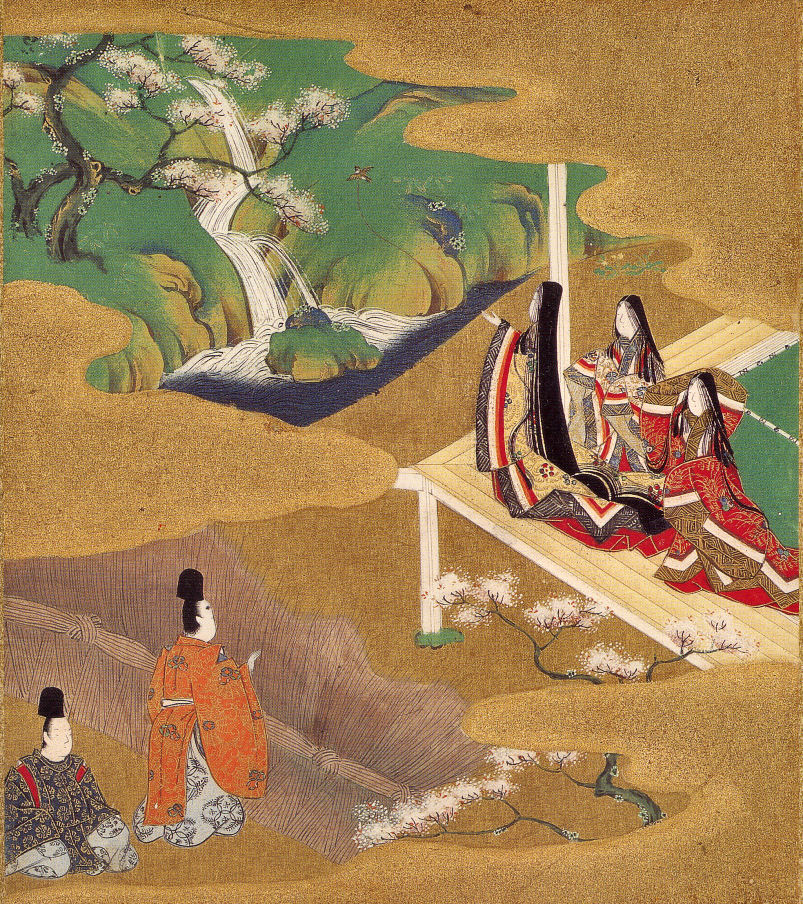 Ilustration of the The Tale of Genji, ch.5–Wakamurasaki, traditionally credited to Tosa Mitsuoki (1617–1691), part of the Burke Albums, property of Mary Griggs Burke